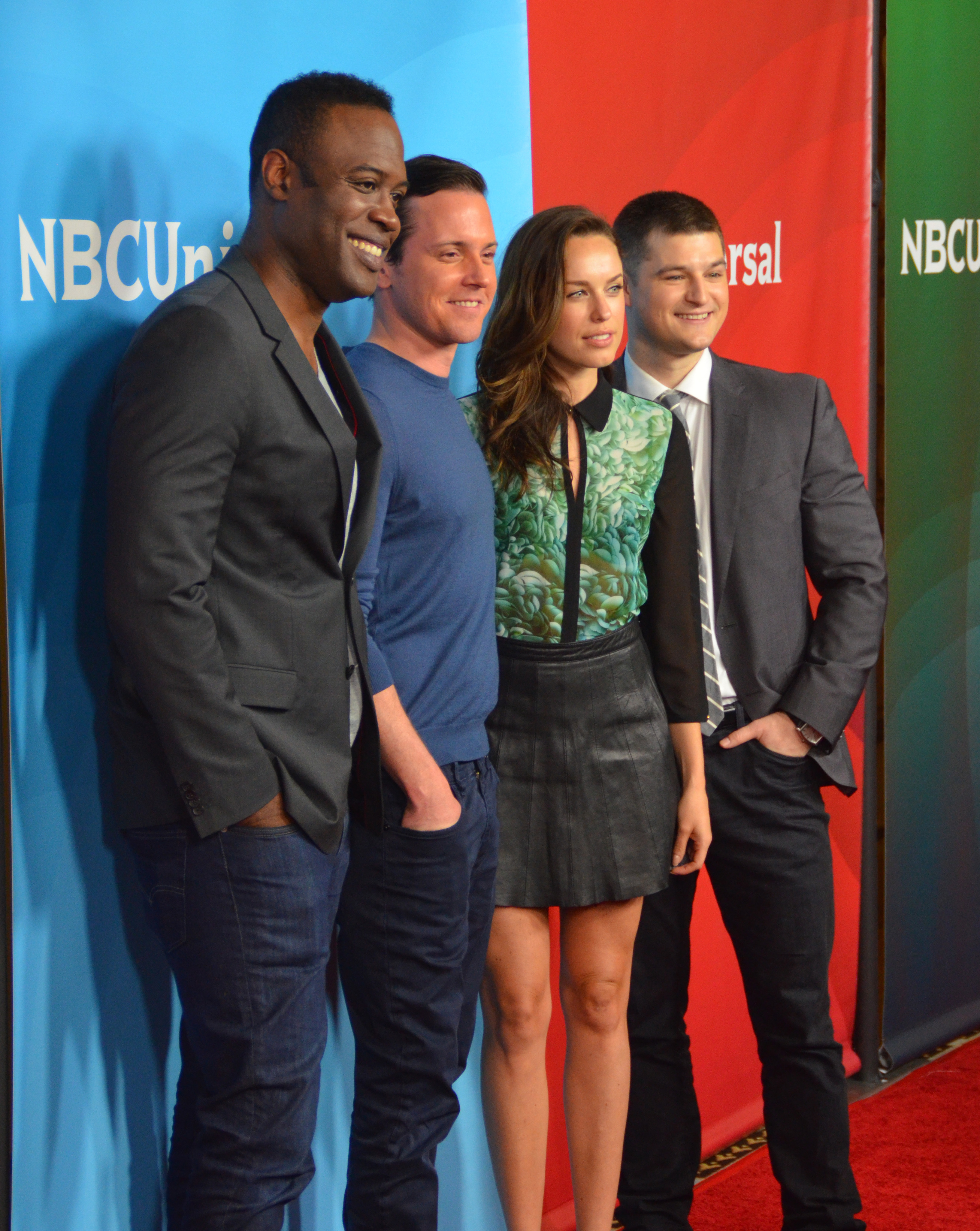 Actors Kevin Daniels, Michael Mosley, Jessica McNamee and Kevin Bigley at the 2015 Television Critics Association’s Press Tour (TCA2015) for the NBC Universal TV show announcements, interviews with cast and creators at The Langham Huntington Hotel in Pasadena, CA.